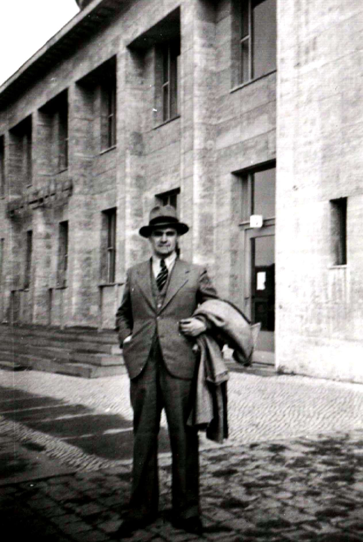 Bulgarian painter Pencho Georgiev (1900-1940), Berlin